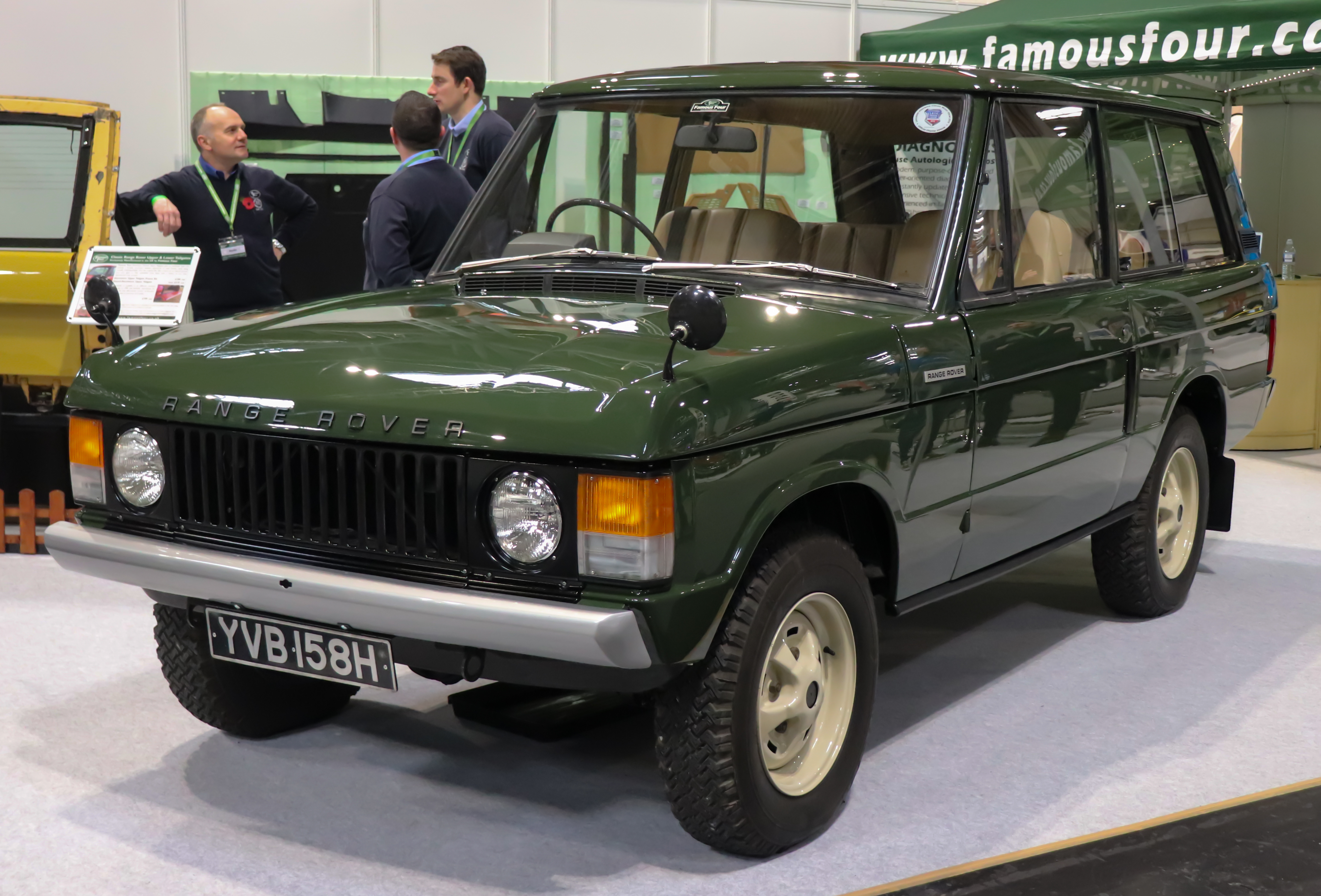 1970 Land Rover Range Rover 3.5 Taken at the NEC Classic Motor Show 2019